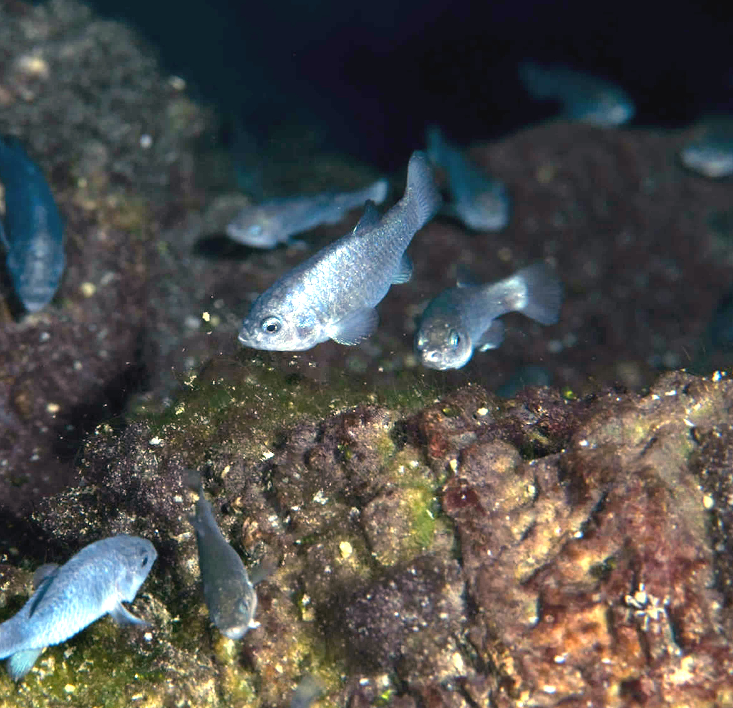 Devil's Hole pupfish, Cyprinodon diabolis